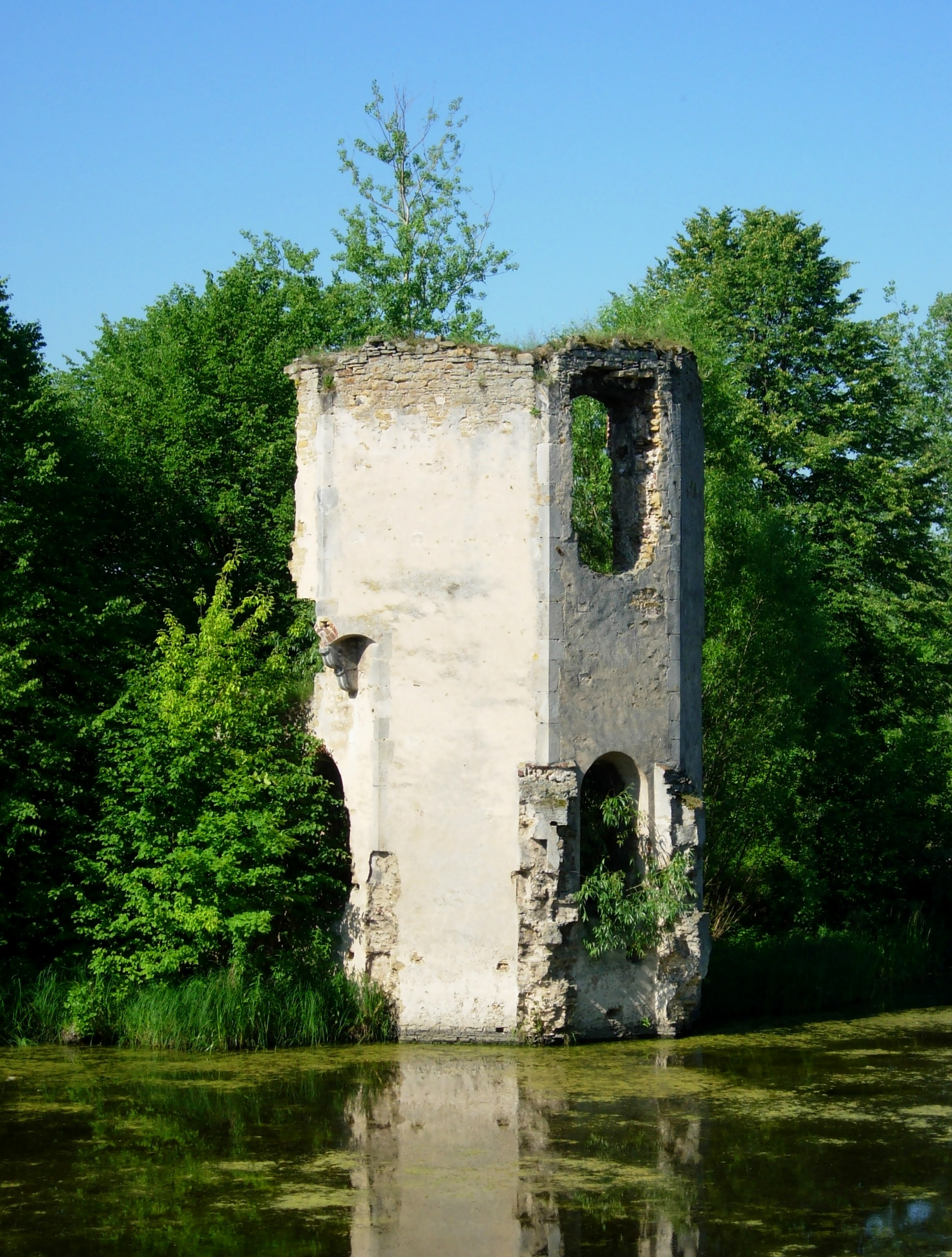 The ruins of the castle in Ćmielów